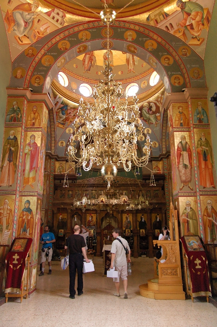 Impressions Wikimania 2011 Haifa